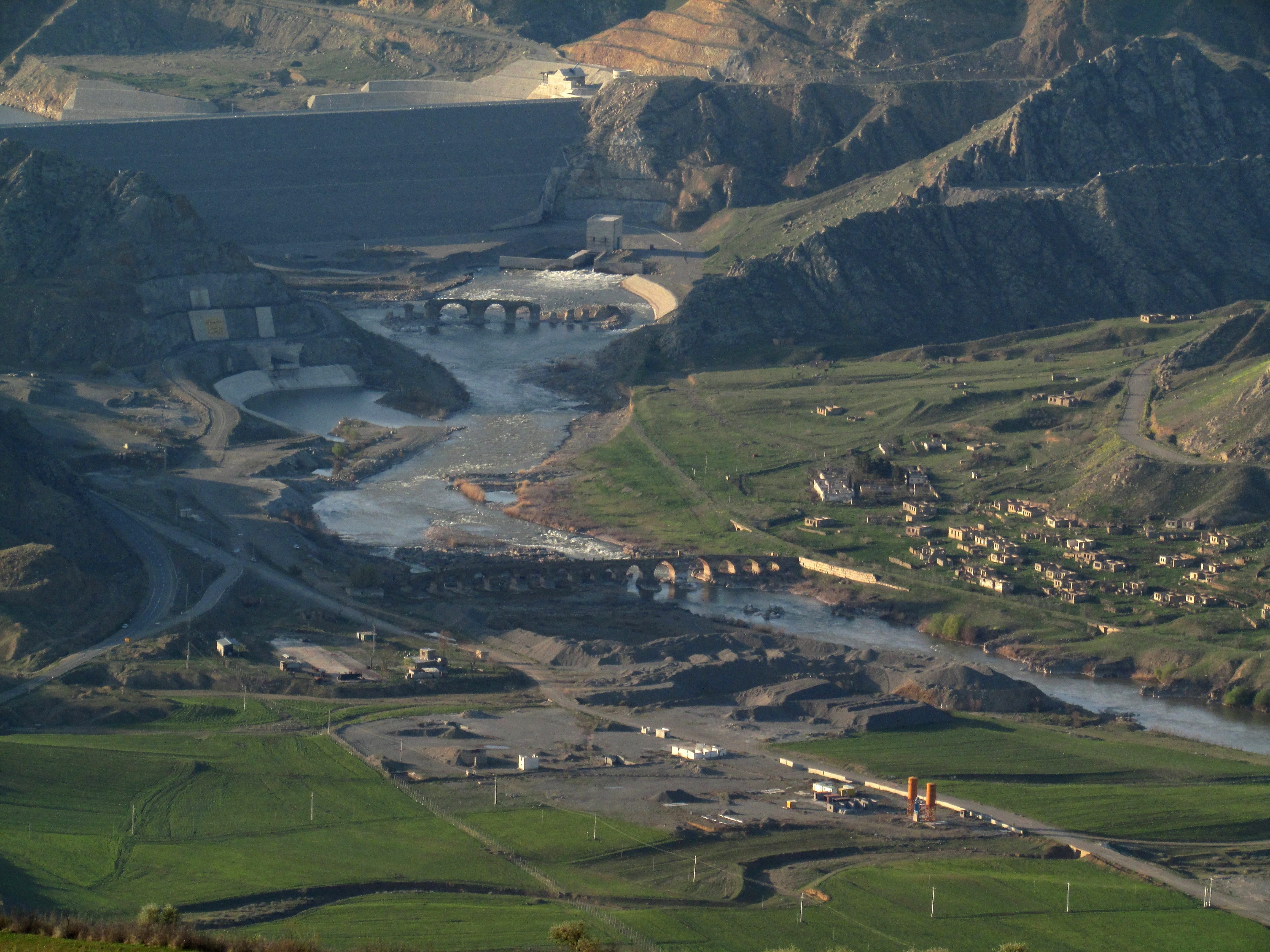 This is a photo of two ancient bridges in Khoda Afarin County, near Khomarlu in Arasbaran region.